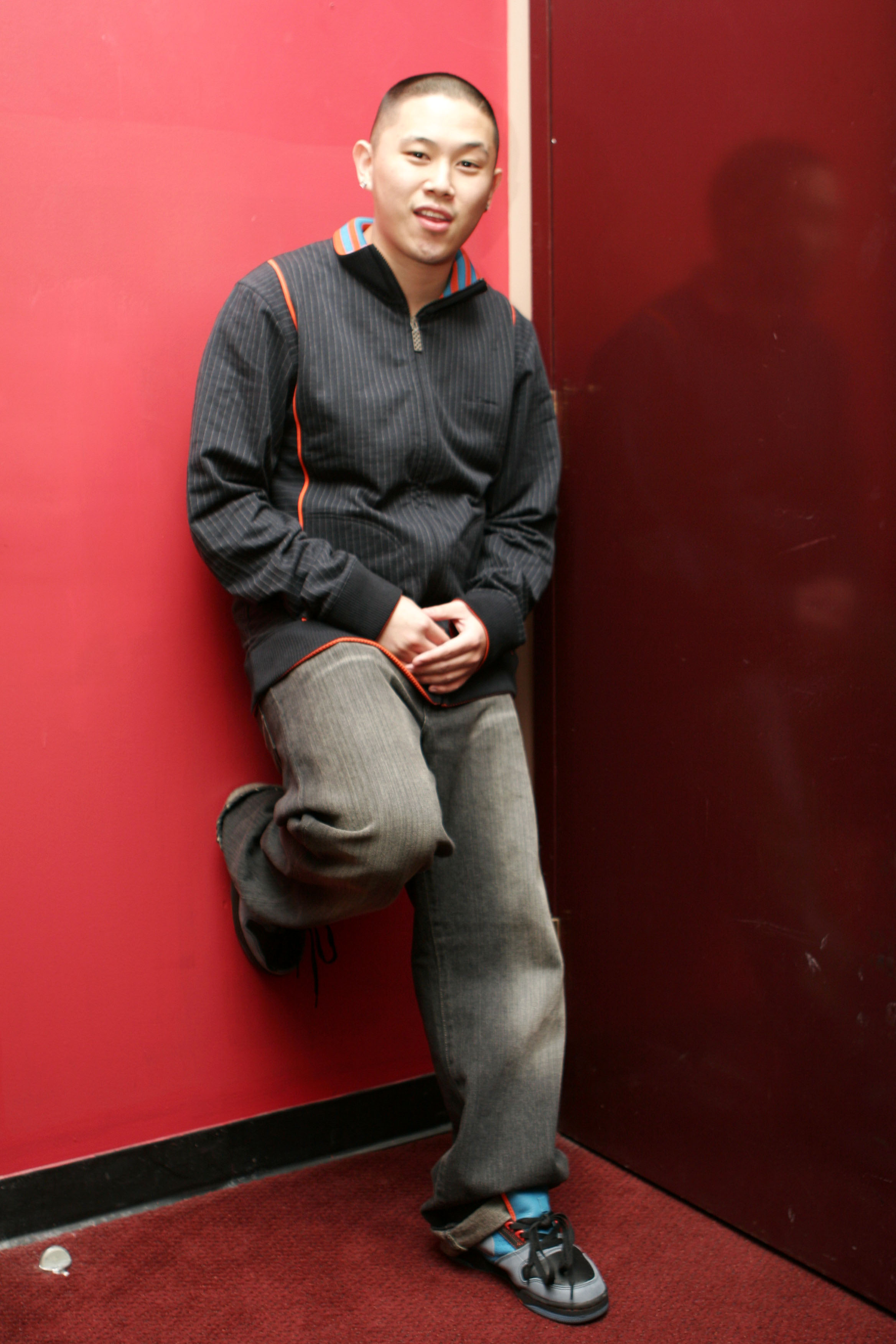 Jin (rapper).